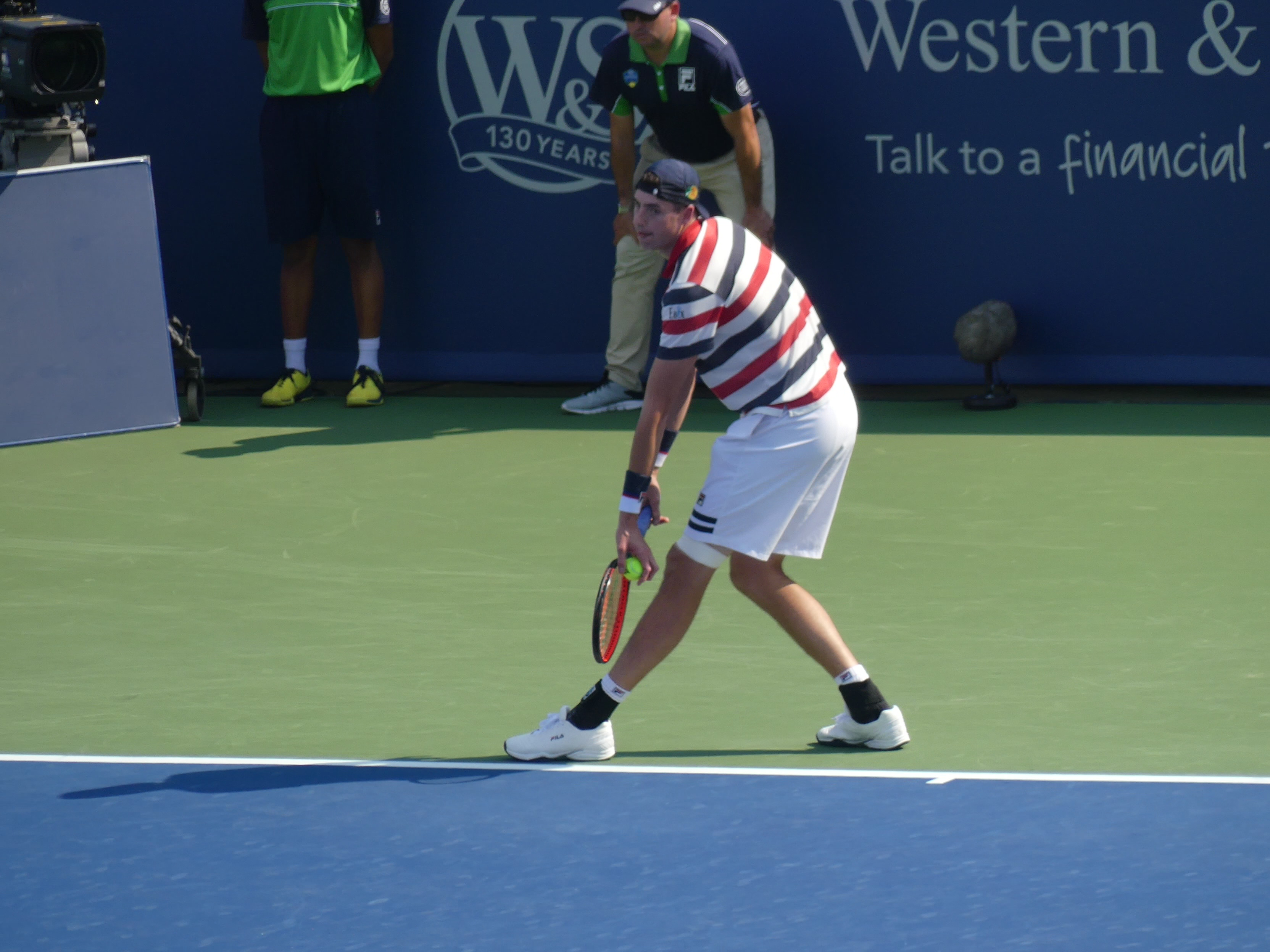 John Isner during his first round match of the 2018 Western and Southern Open against Sam Querrey.